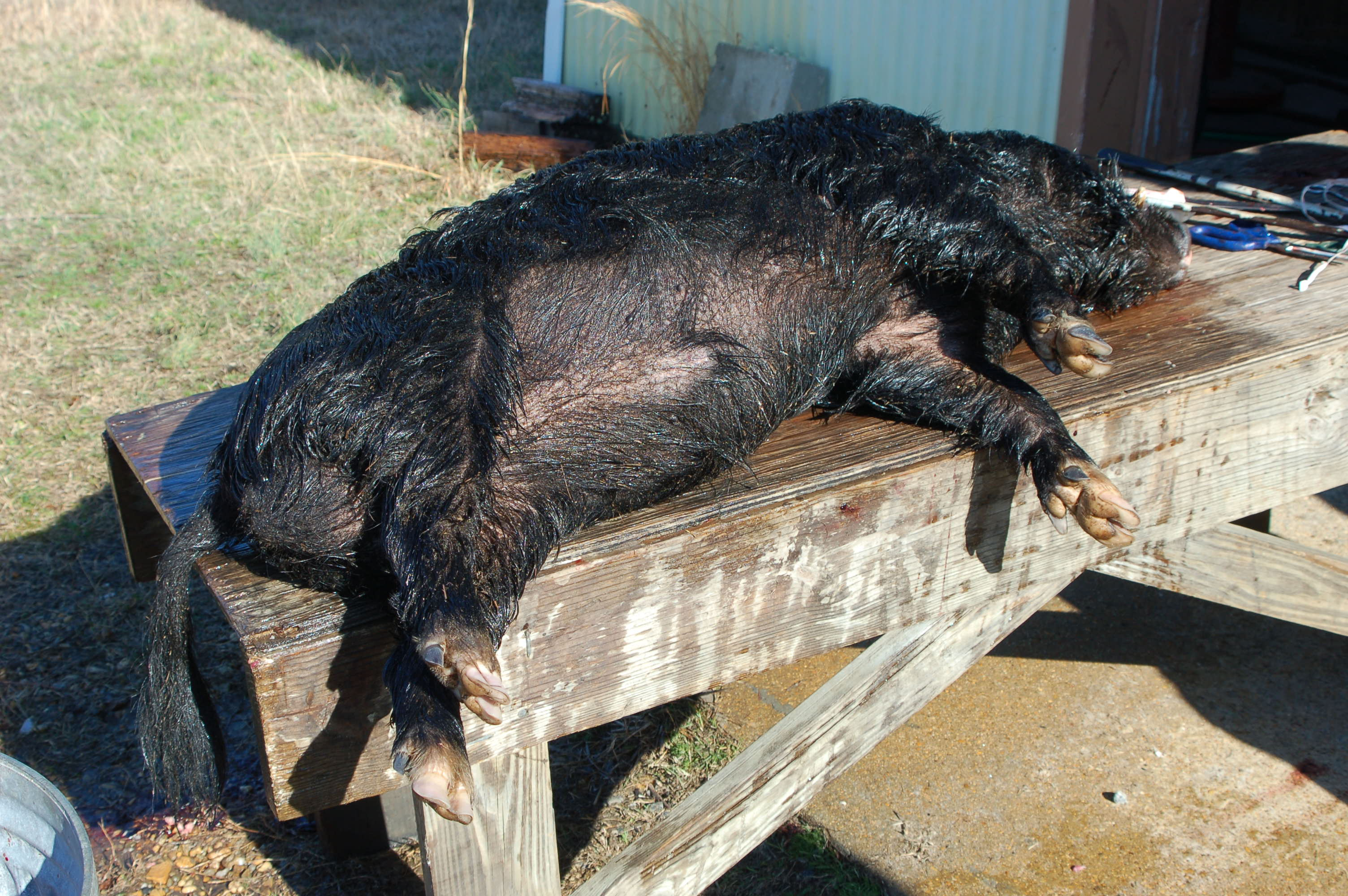 Wild Hog